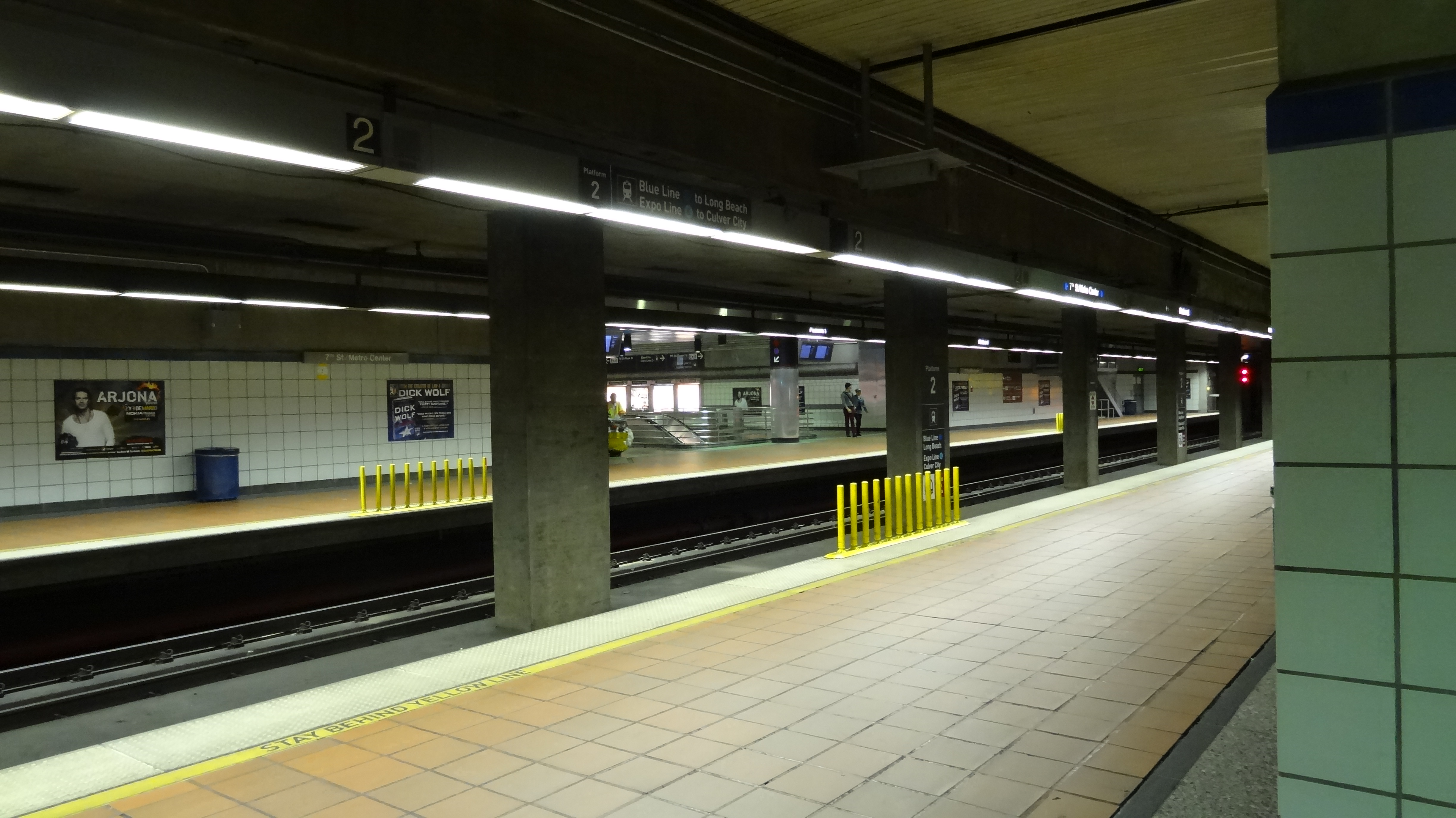 Metro Blue & Expo Lines platform #2 at 7th Street/Metro Center Station. Both lines depart from the same platform.